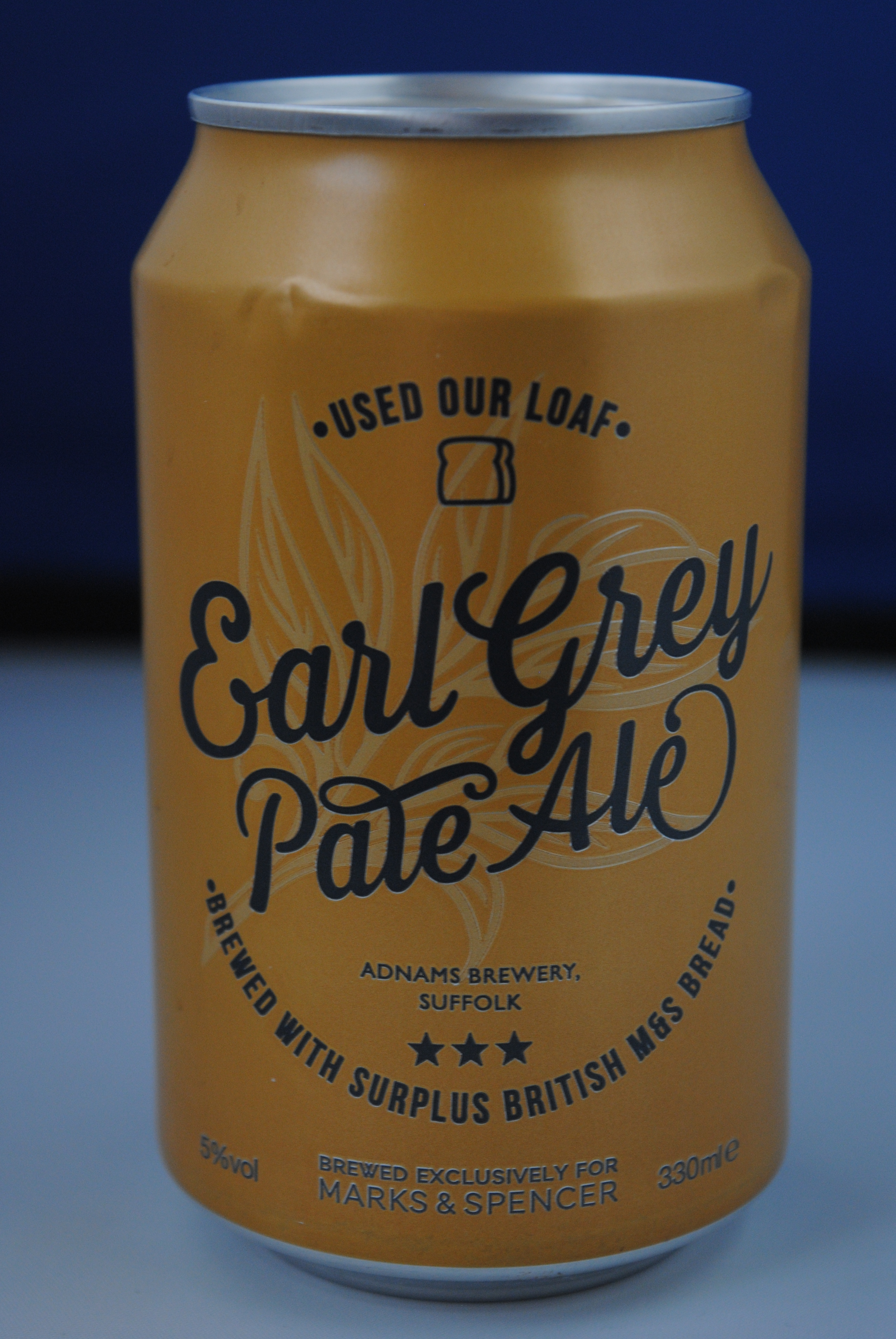 A 330ml can of Marks & Spencer 'Earl Grey Pale Ale' (5% ABV), brewed for them by Adnams Brewery, using bread and flavoured with Earl Grey tea. Generously emptied as a contribution to the Wikimedia movement by the photographer.